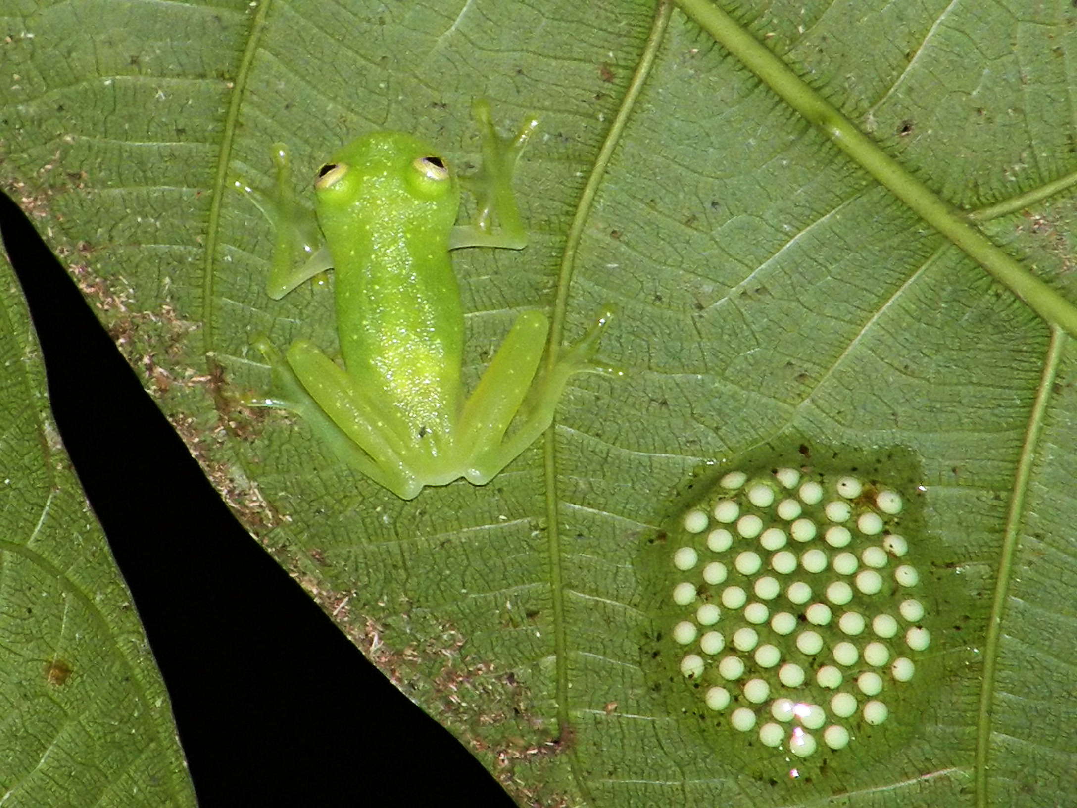 A very cool glass frog that was calling all along Rio Mendoza and Rio Limbo on pipeline road. The males keep clutches hydrated and call for females from their territories at night. This one was maybe 15 feet above the water, most were higher.Approximate coordinates (within 2 km).